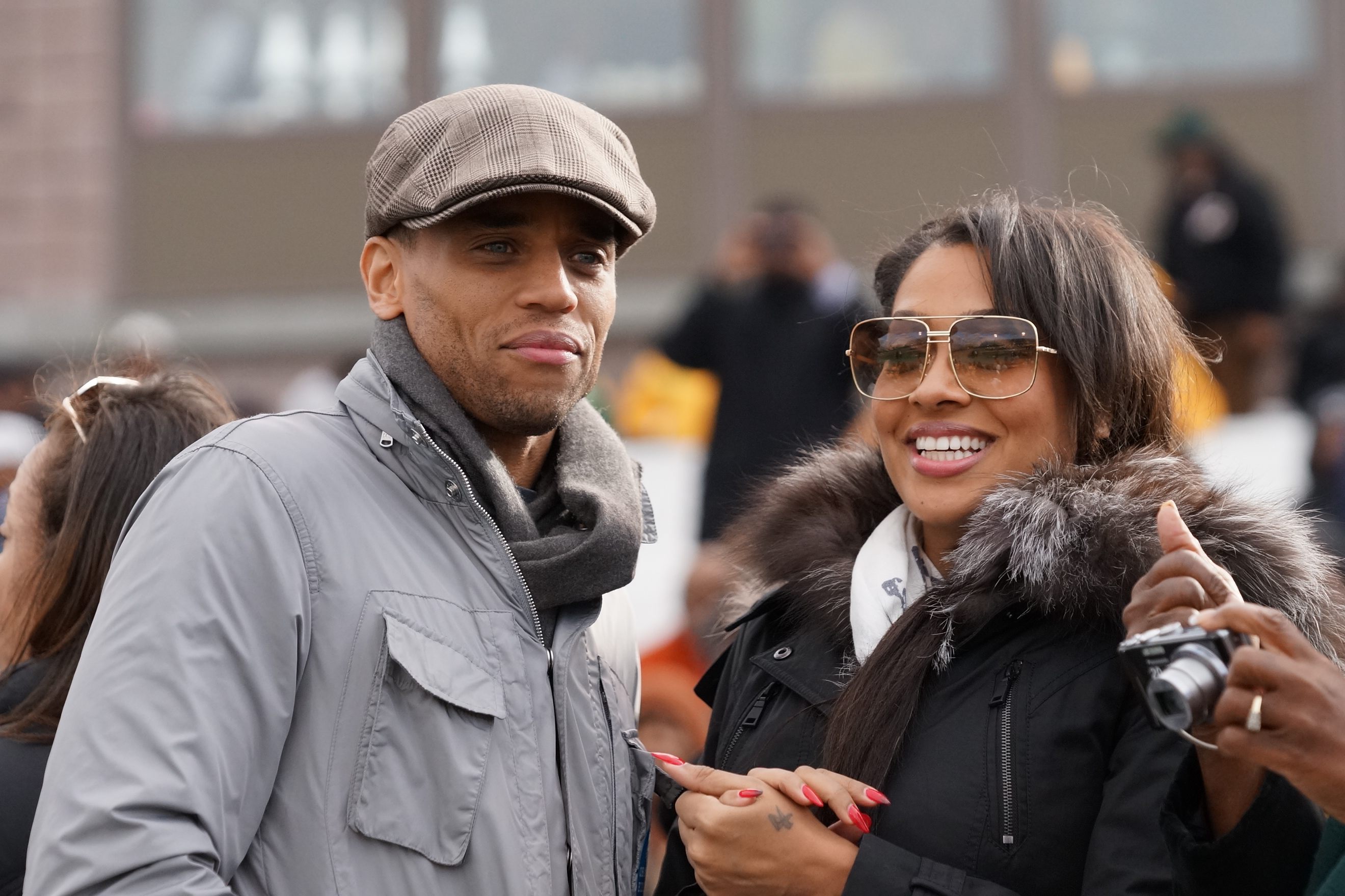 NSU defeated Savannah State 33-21 during its 2012 Homecoming celebration.